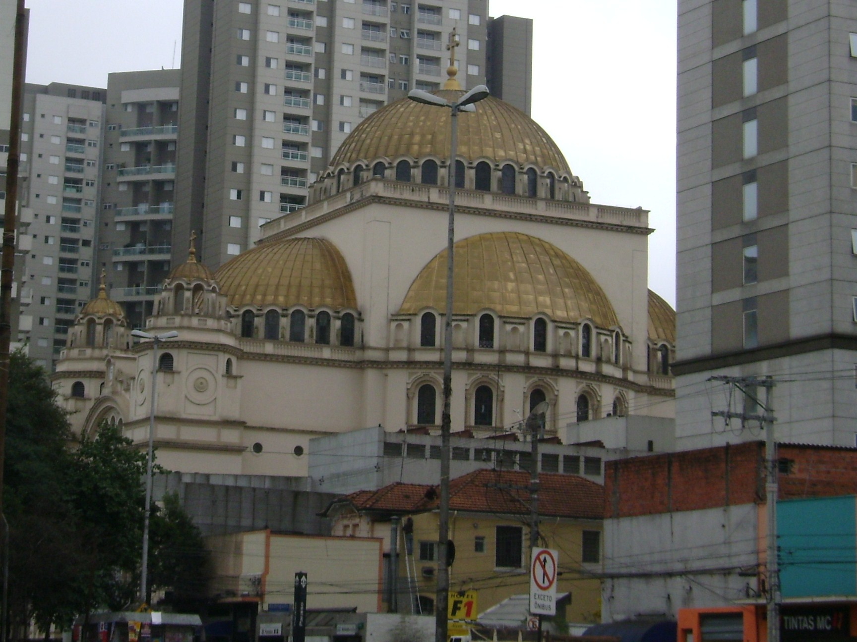 Ortodox Cathedral in Sao Paulo